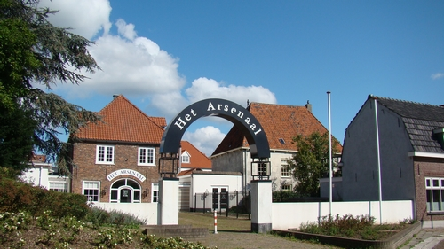 Arsenal at Grave, Netherlands